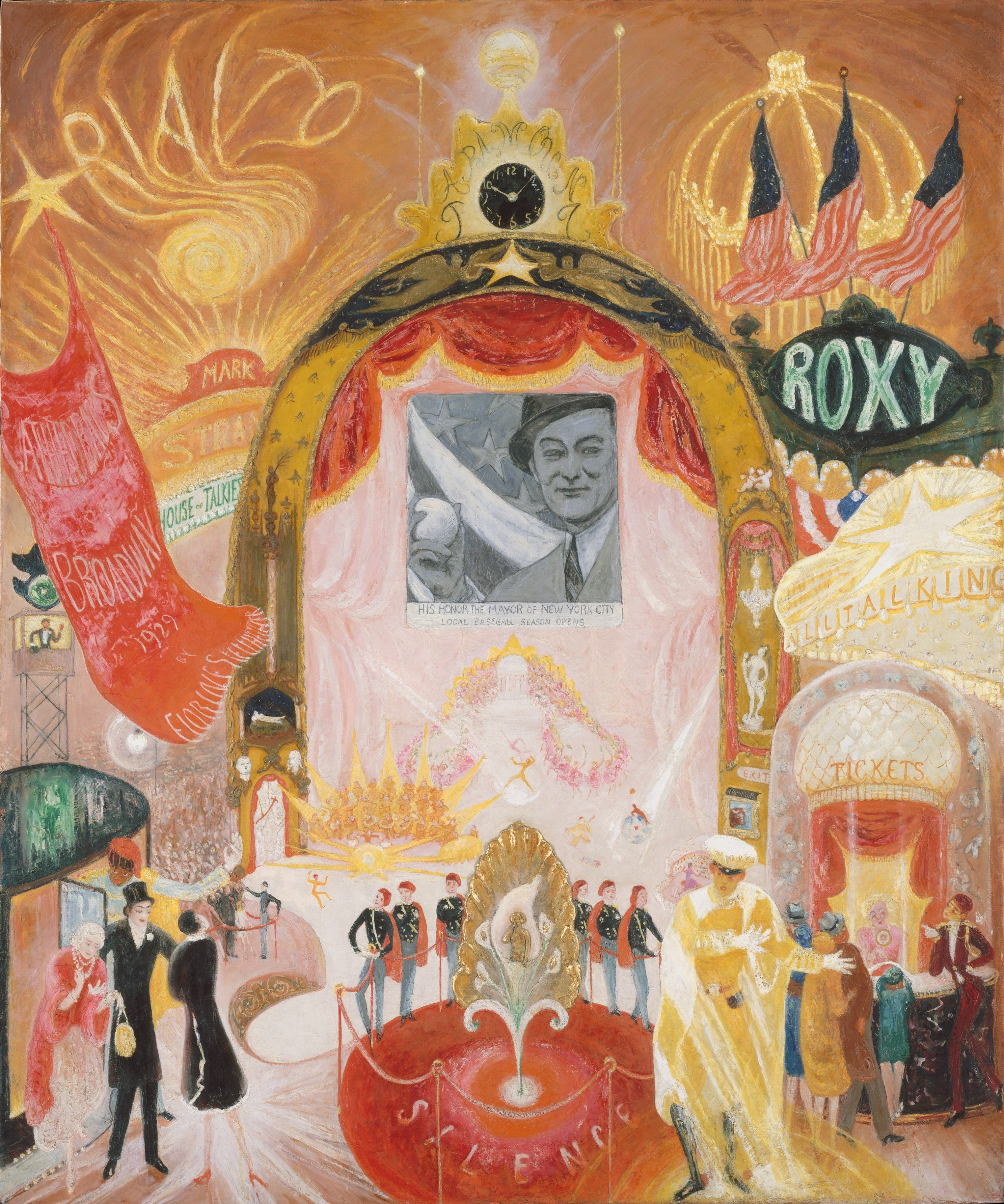 The Cathedrals of Broadway by Florine Stettheimer, 1929, oil on canvas, 60.1 x 50.1 in. (152.7 x 127.3 cm), Metropolitan Museum of Art. In the center, New York City mayor Jimmy Walker throwing the first pitch of the baseball season.